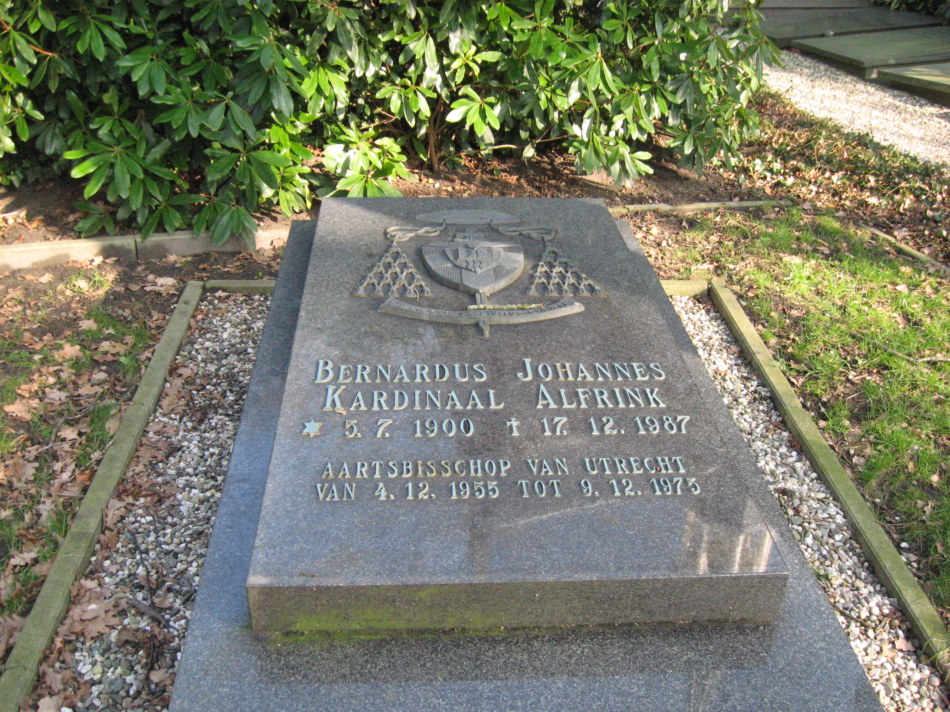 The grave of cardinal Bernardus Alfrink, archbishop of Utrecht (1955–1975)